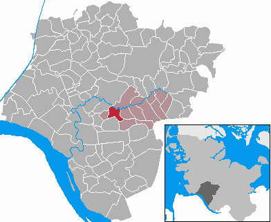 This map shows the area of the municipality Münsterdorf in the Kreis (district) Steinburg, Schleswig-Holstein, Germany.